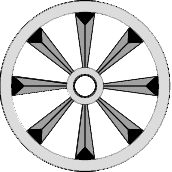 Vesakh Schweiz